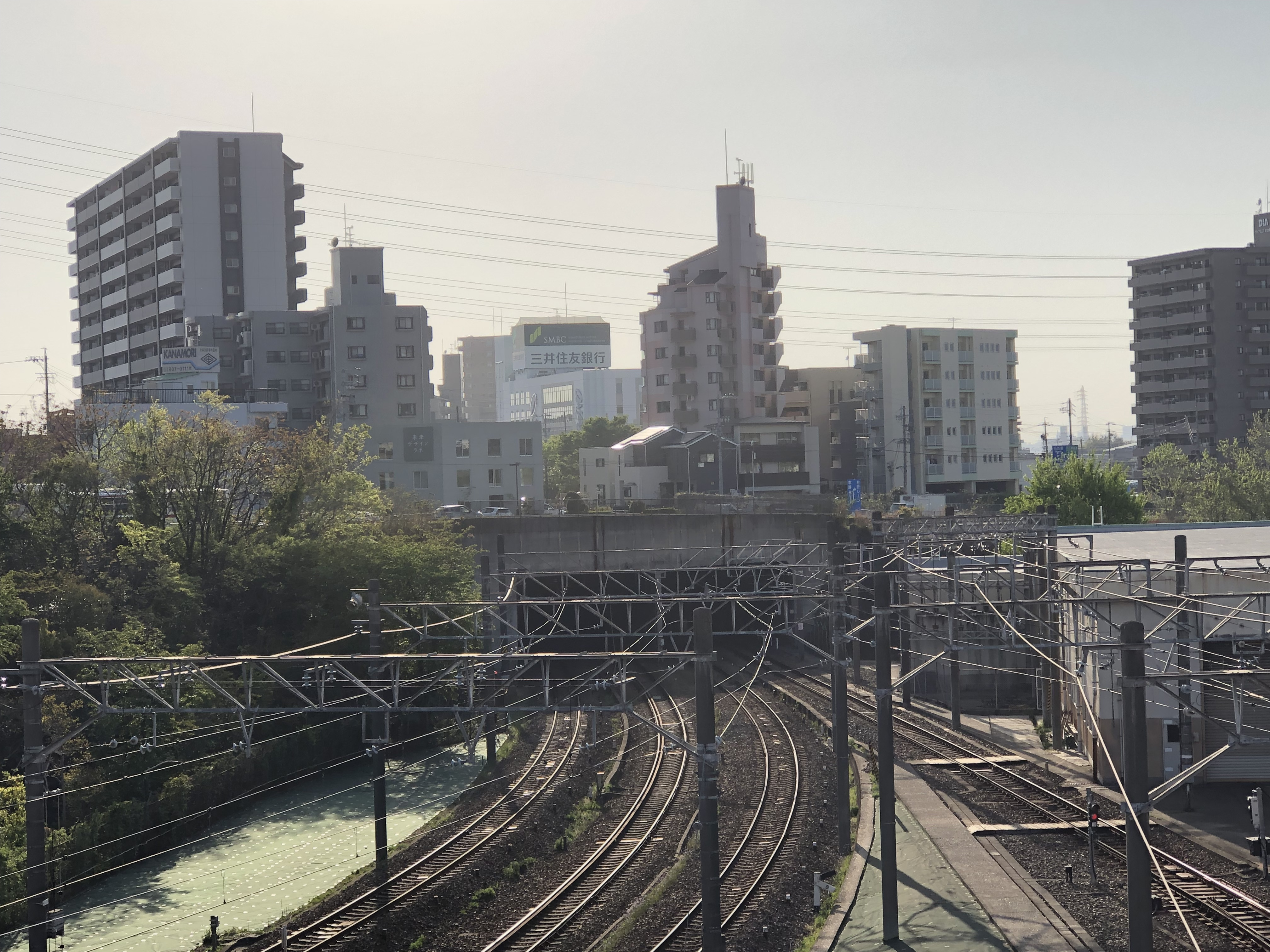 AkaikeTown4